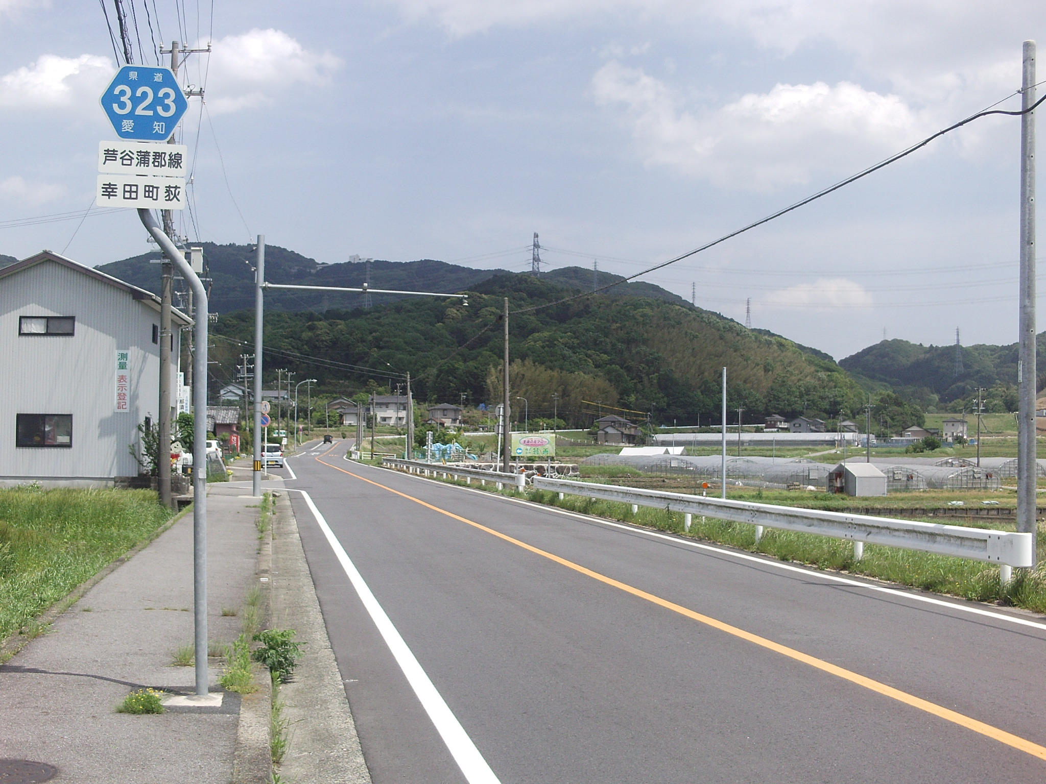 Aichi prefectural road No.323 in Ogi, Kota-cho, Nukata-gun, Aichi.